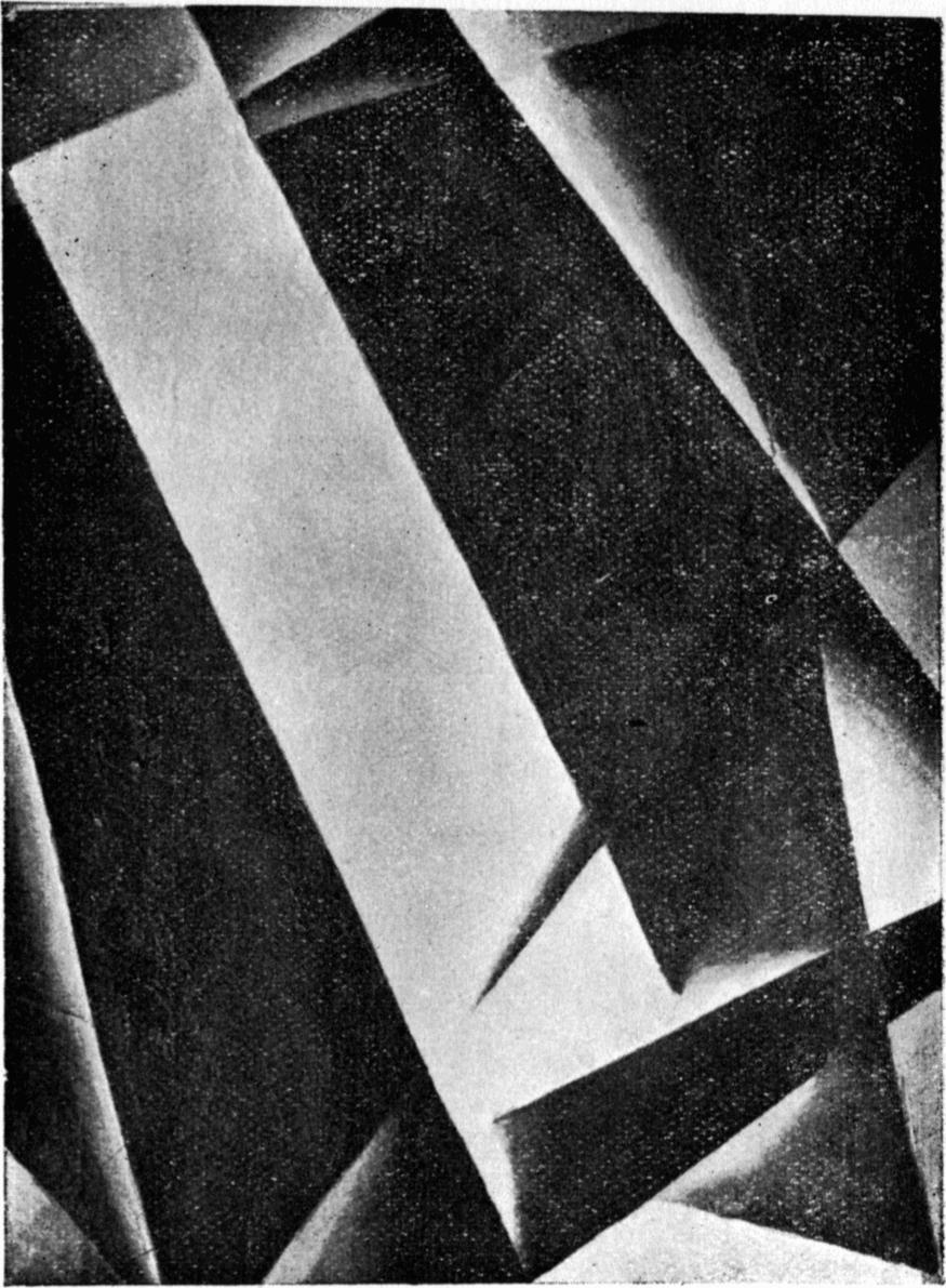 Untitled. Oil on canvas (?).